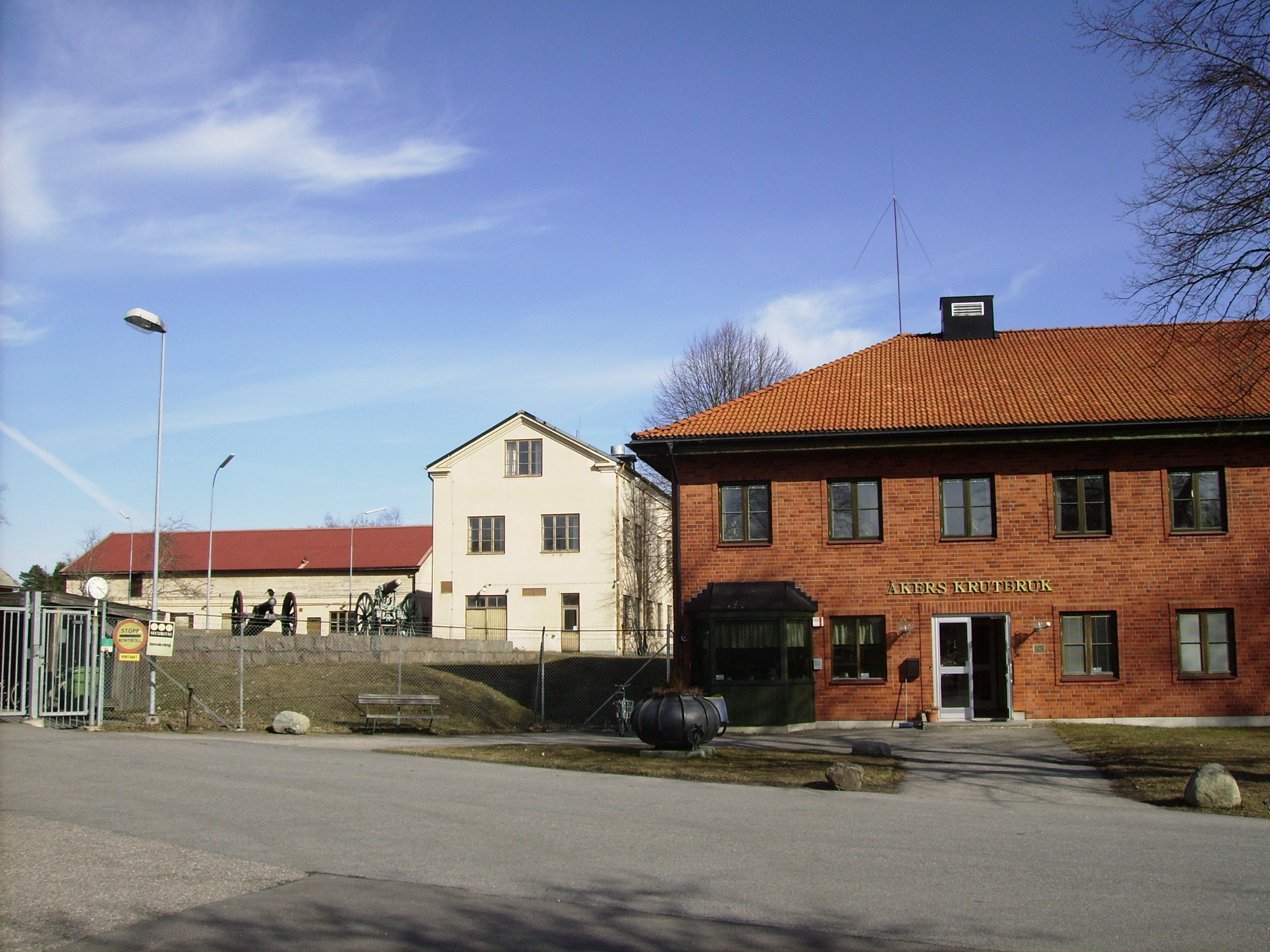 Picture at Akers Krutbruk, in Akers styckebruk, marsh 2009.